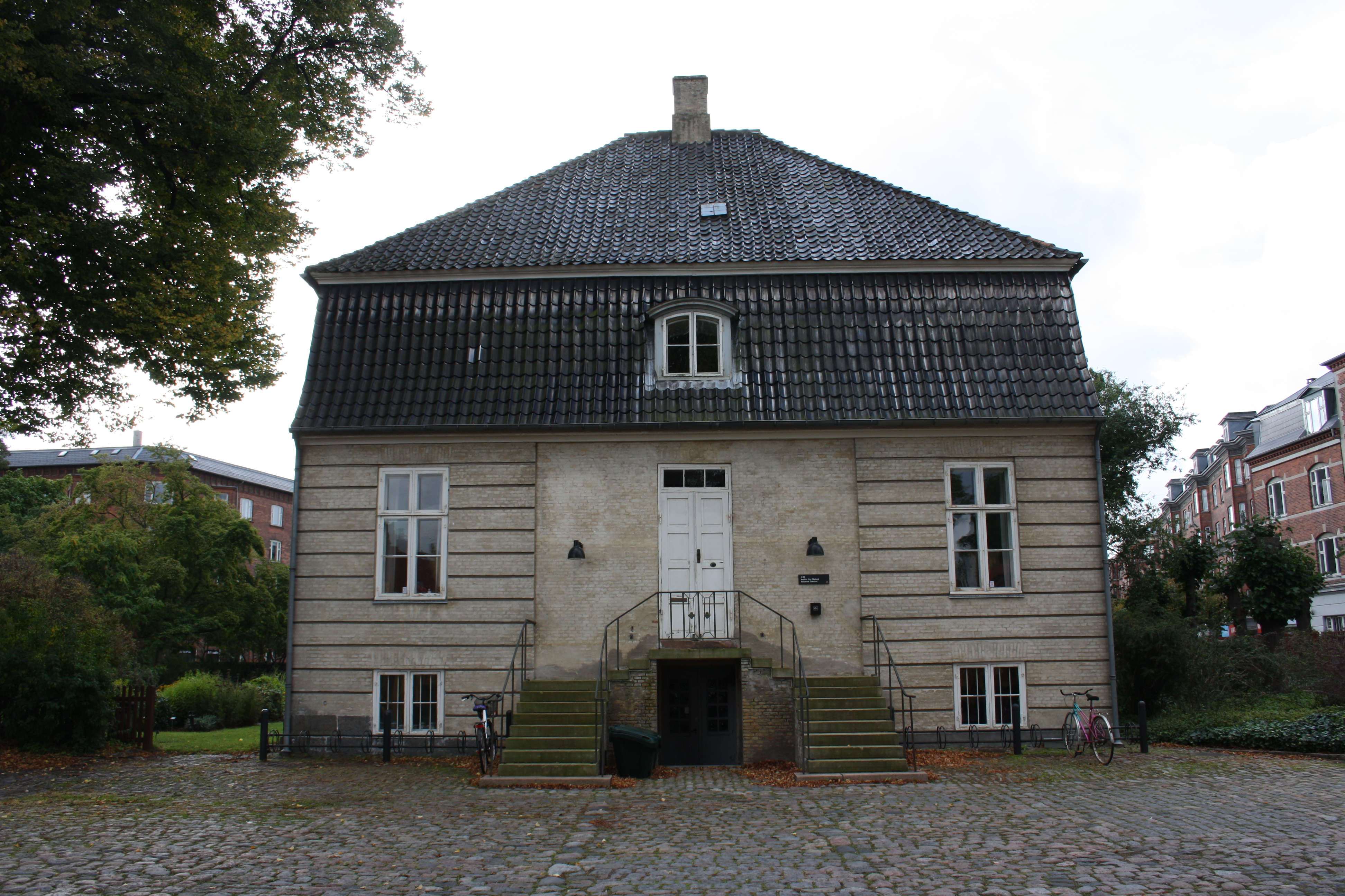 Rolighedsvej 21, Frederiksberg